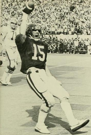 A photograph of West Virginia University football quarterback Jeff Hostetler scoring a touchdown against the University of Pittsburgh.